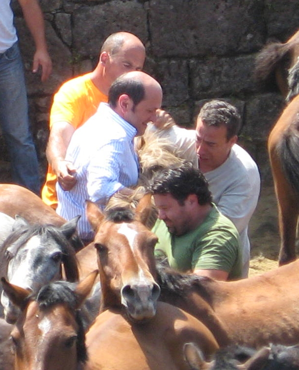 Rafael Louzán (in striped white shirt), president of the Provincial Deputation of Pontevedra, holds a horse or a mare along with local aloitadors during the Rapa das Bestas festival in Sabucedo, A Estrada, Pontevedra, Galicia.